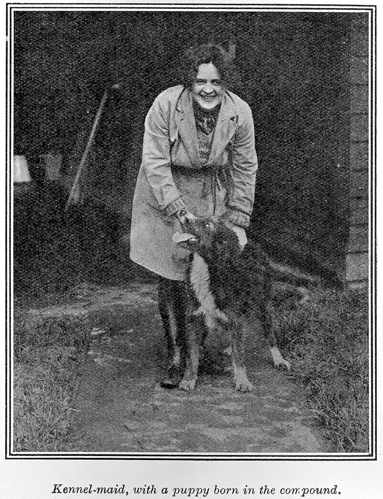 Kennel-maid, with a puppy born in the compound. Wellcome Images